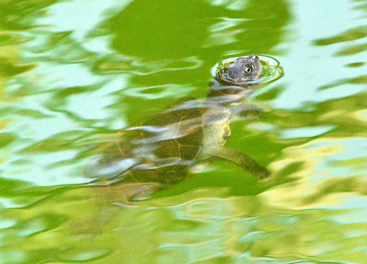 Turtle in Iyake suspended lake, Ado Awaye, Oyo state, Nigeria This is an image with the theme "Play" from: Nigeria